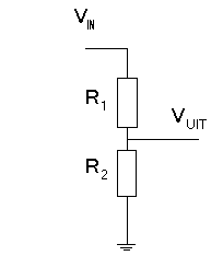 Two resistor voltage divider.